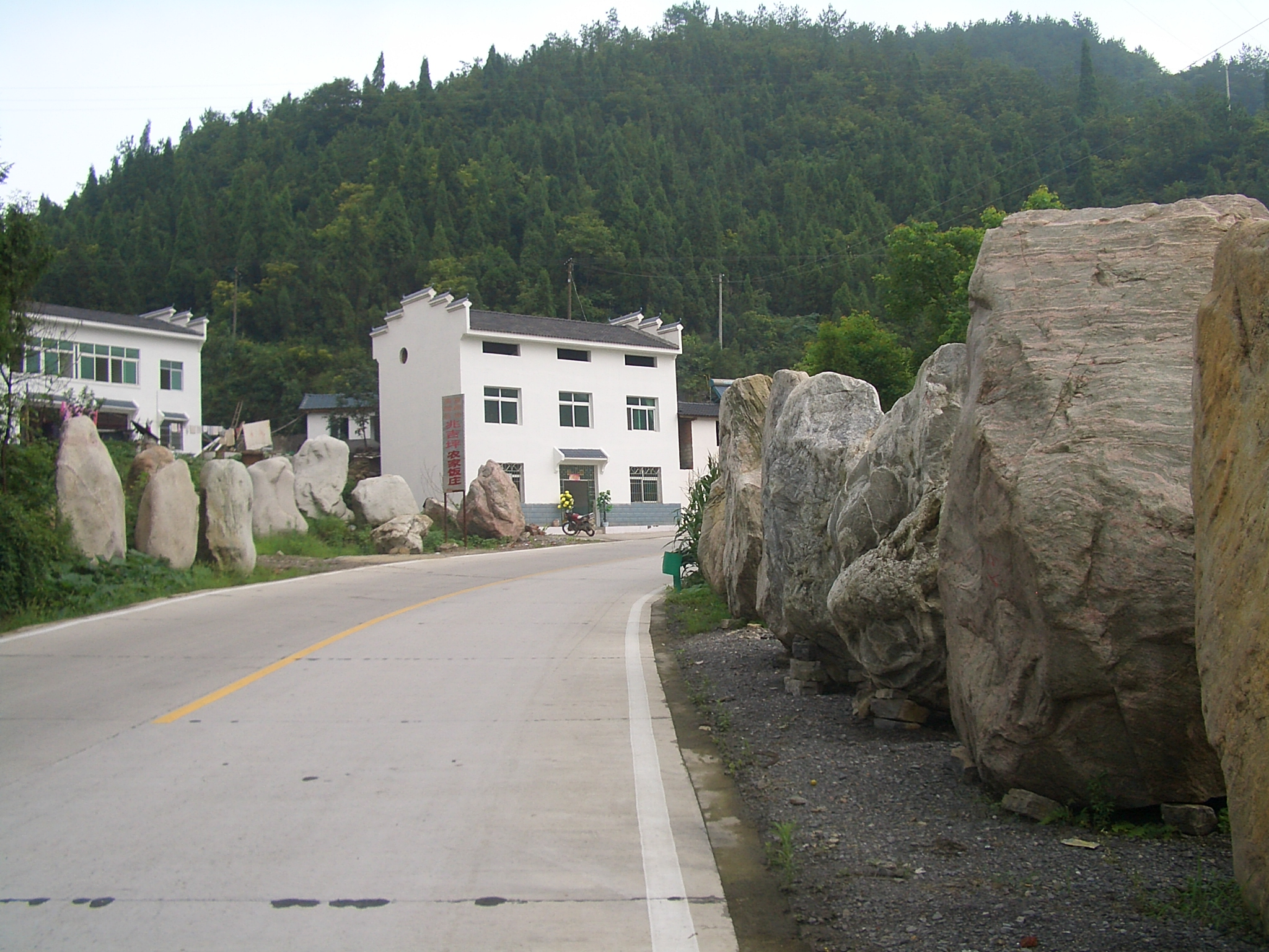 Numerous quarries along Hubei route S334 in Yiling Disrtrict west of Yichang advertise their existence and products by placing a row of "interesting" stones along the roadway.